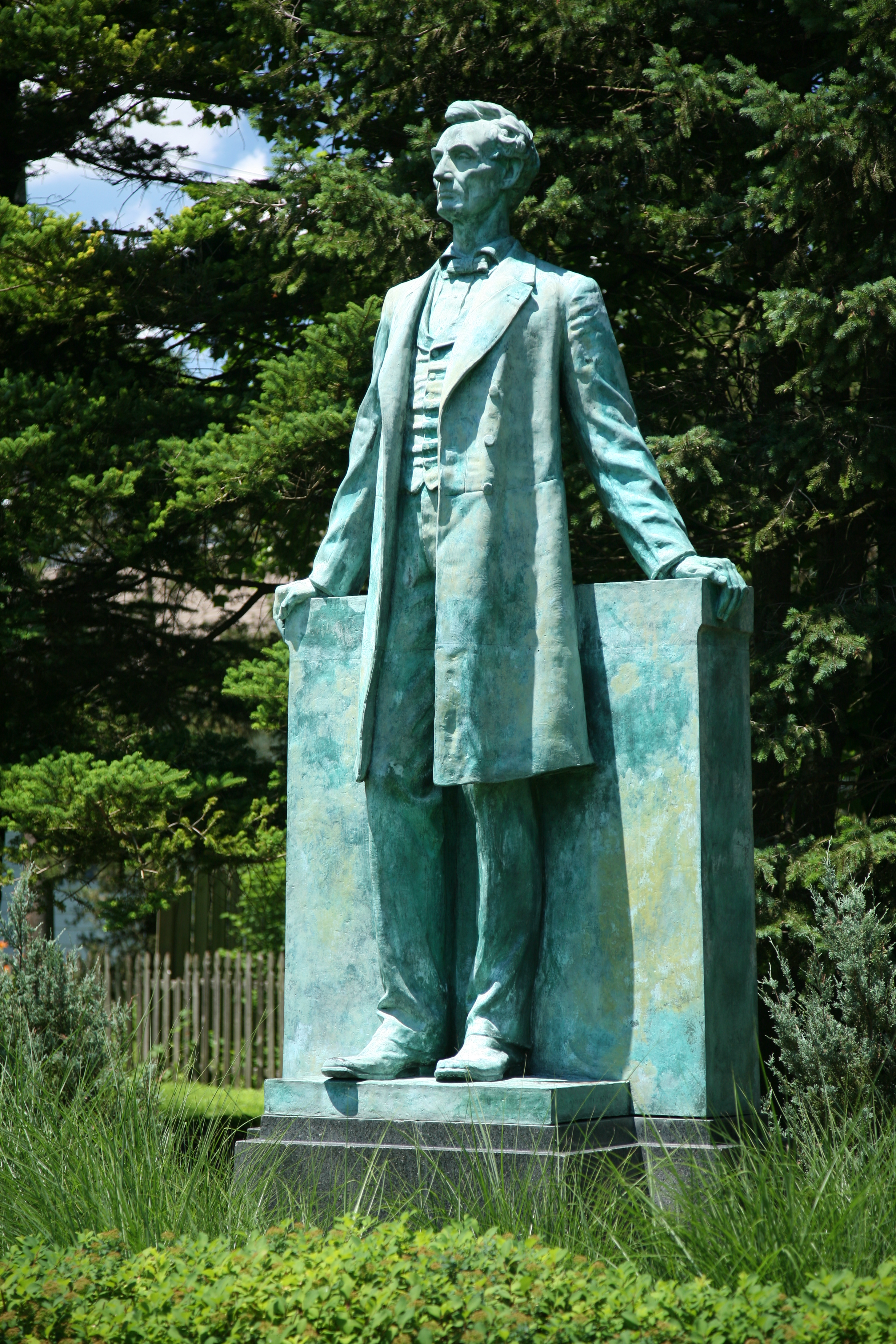 Carle Park in Urbana, Illinois